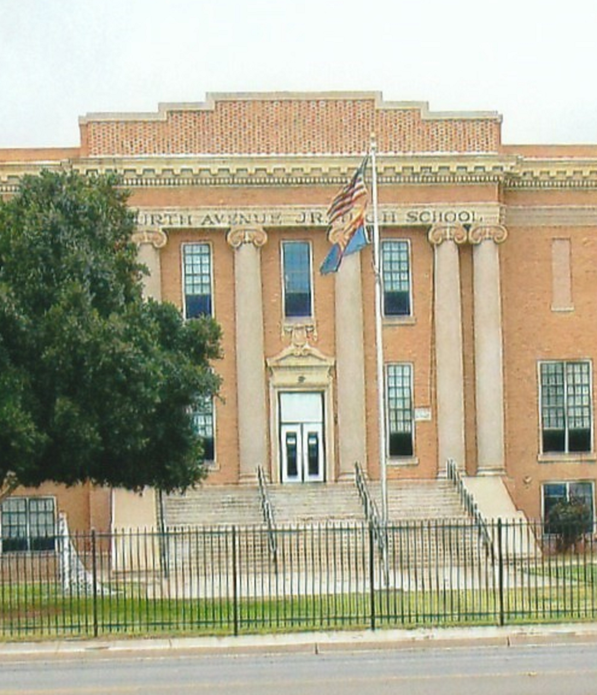 Entrance to the historic Fourth Avenue Jr, High School